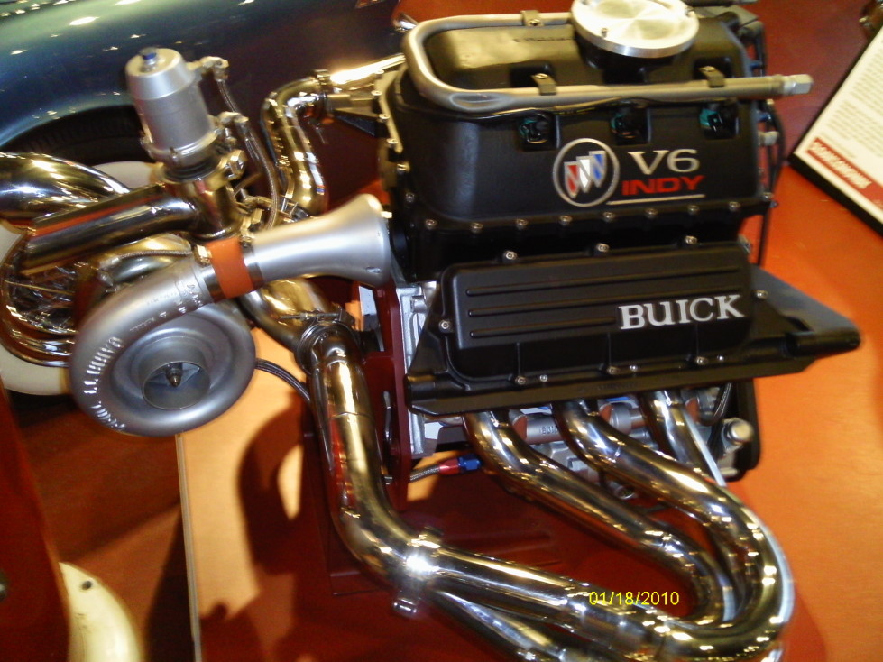 Buick 3300 Indy V-6 CART / USAC Engine turbo V-6 V6 in the Sloan Museum and Buick Automotive Gallery and Research Center at Flint, Michigan